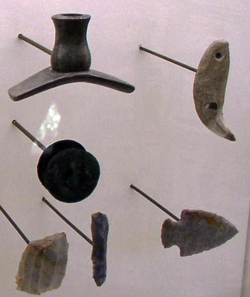 Pipe, points and earspools from Hopewell tradition on display at Serpent Mound